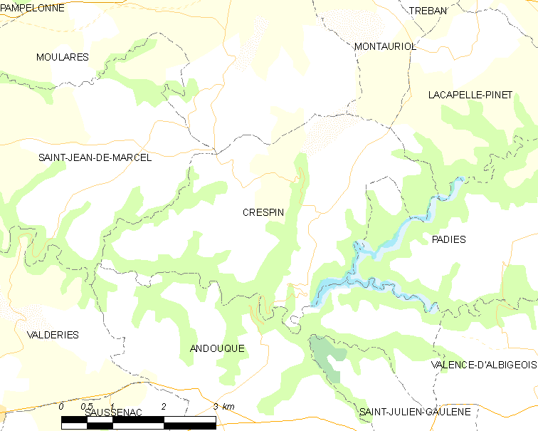 Map of French municipality Crespin